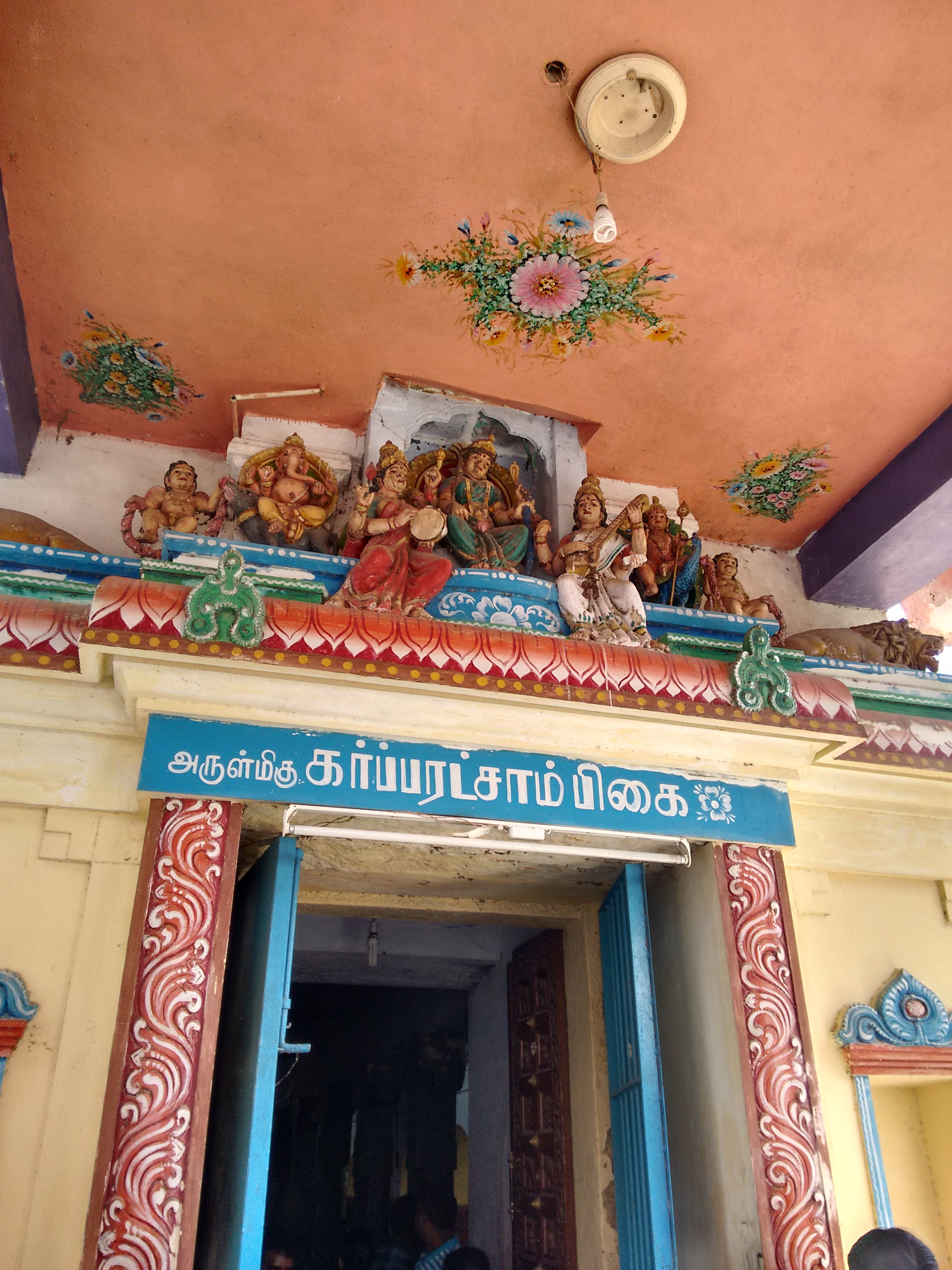 Tirukkarukavur Mullaivananathar temple திருக்கருக்காவூர் முல்லைவனநாதர் கோயில்